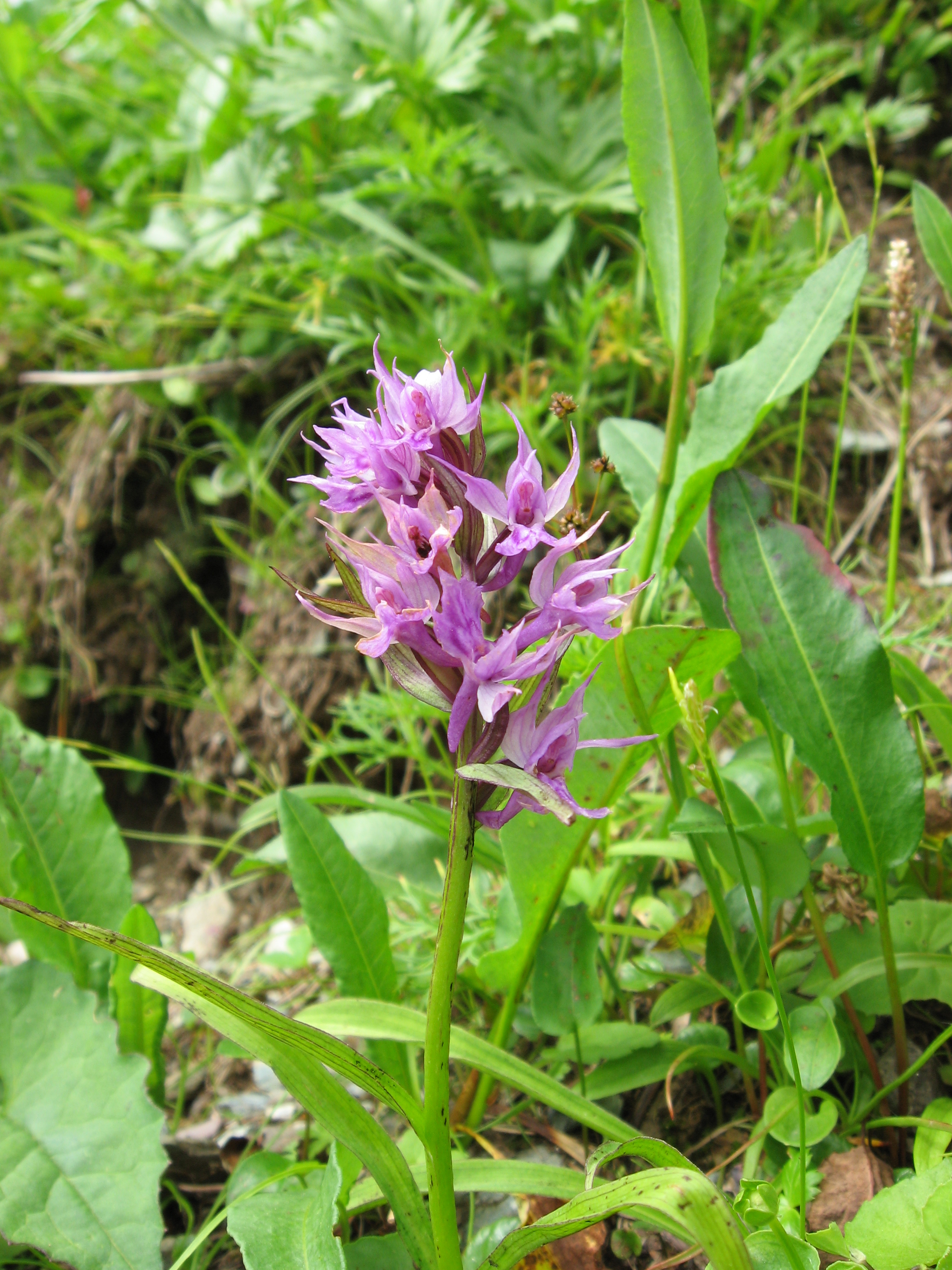 ハクサンチドリ , Dactylorhiza aristata - syn. Orchis aristata